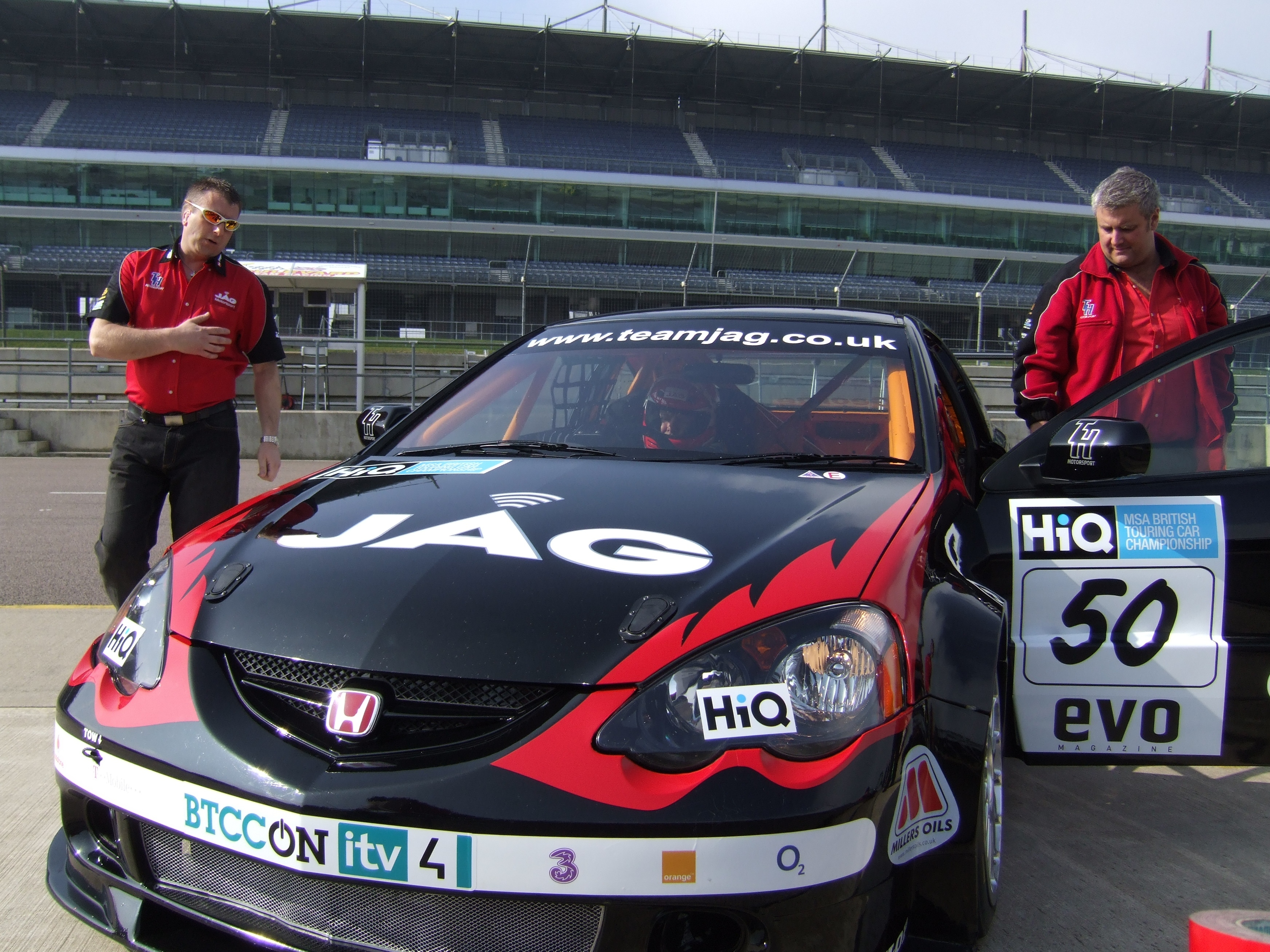 From BTCC Media Day held at Rockingham Speedway. John George's Honda Integra, now running in black livery.